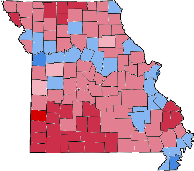 2000 Missouri Senate election results by county.